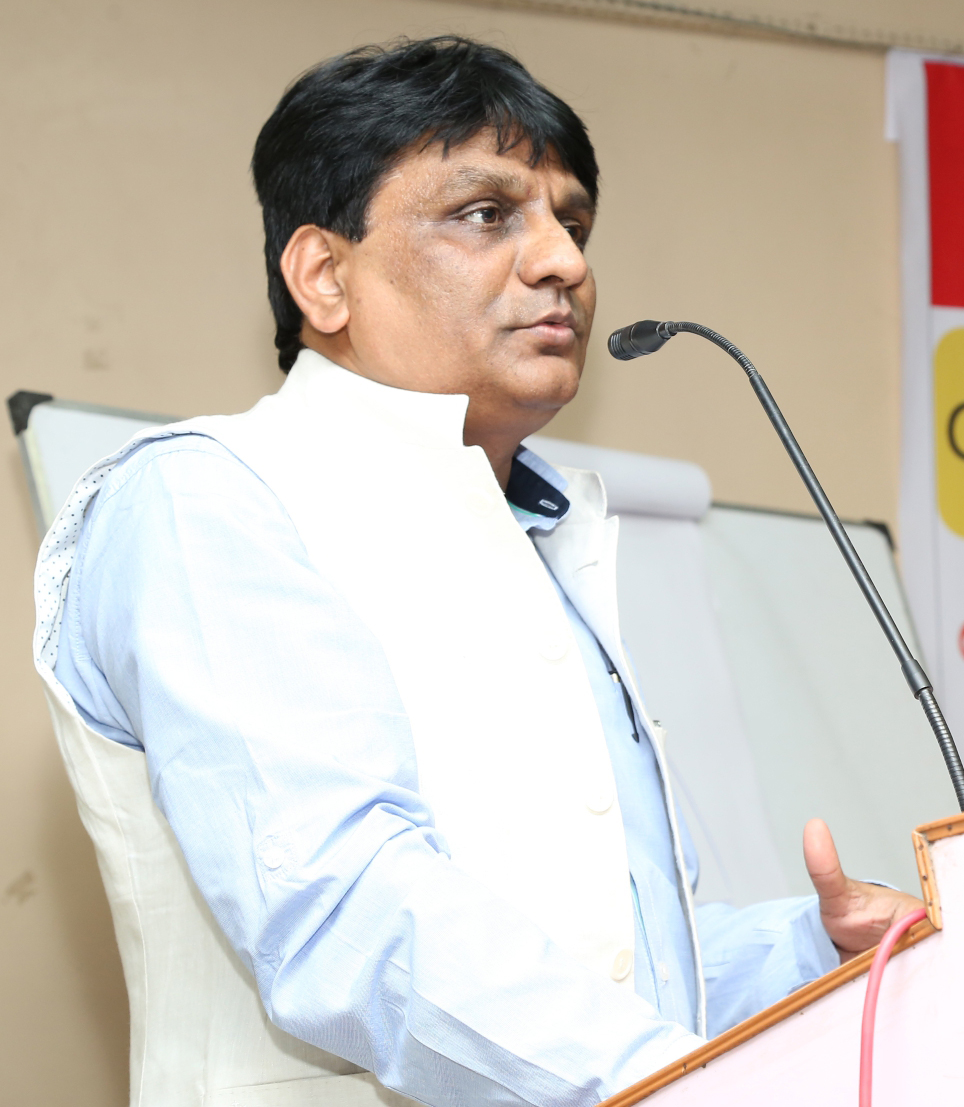 Triambak Sharma, Editor, Cartoon Watch - photographed by me at Chennai during cartoon festival 2015 on 24th October 2015.